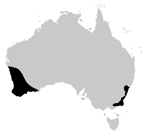 Distribution of the genus Heleioporus on the Australian continent.